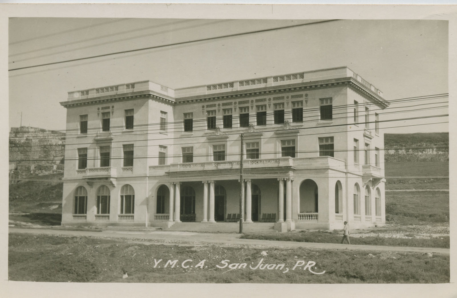 Attilio Moscioni, Real-photo postcard. Gleach/Santiago-Irizarry Collection